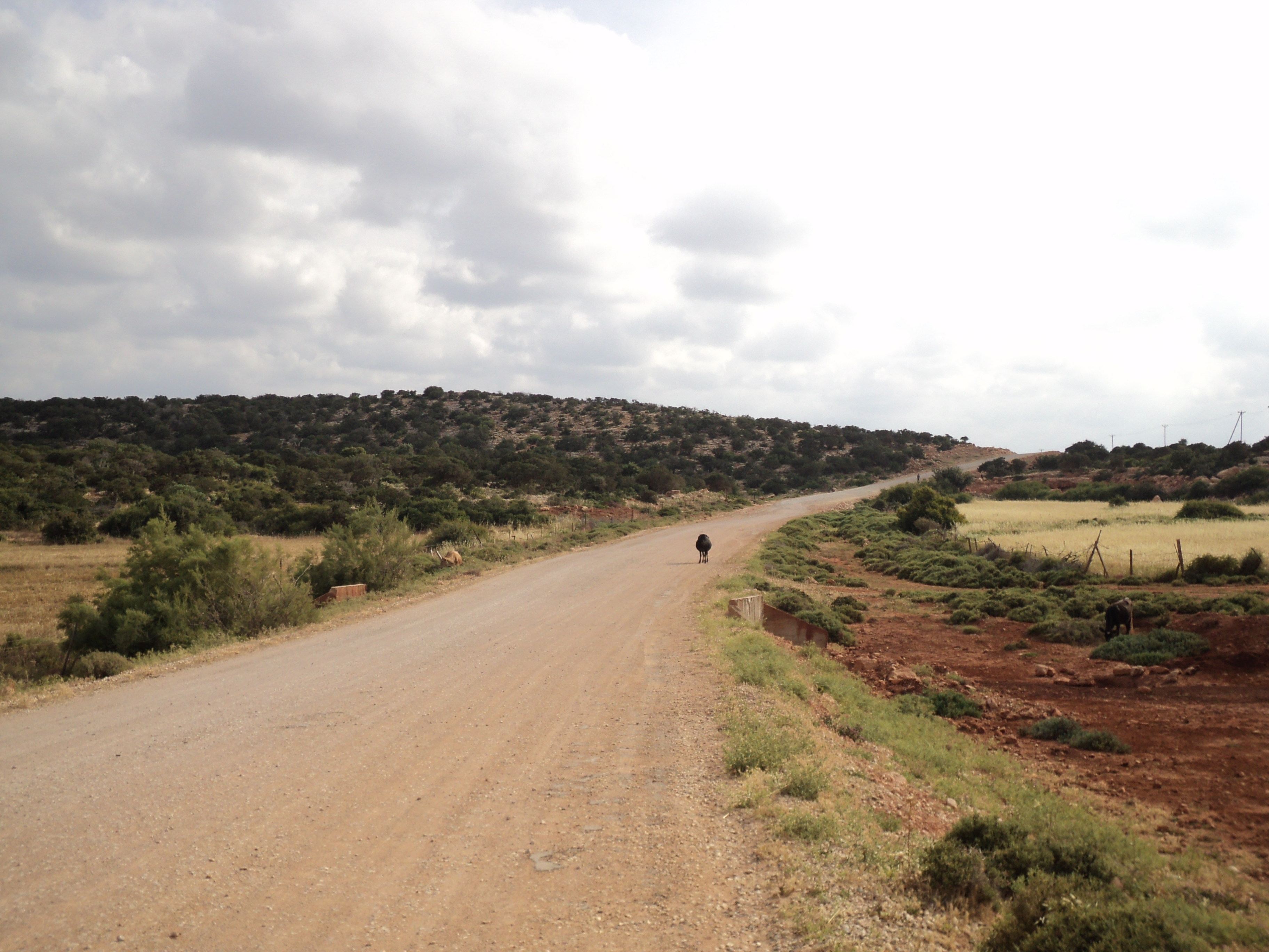 A track between Wadi Jarjarama and Al Haniya, in the Jebel Akhdar mountains.